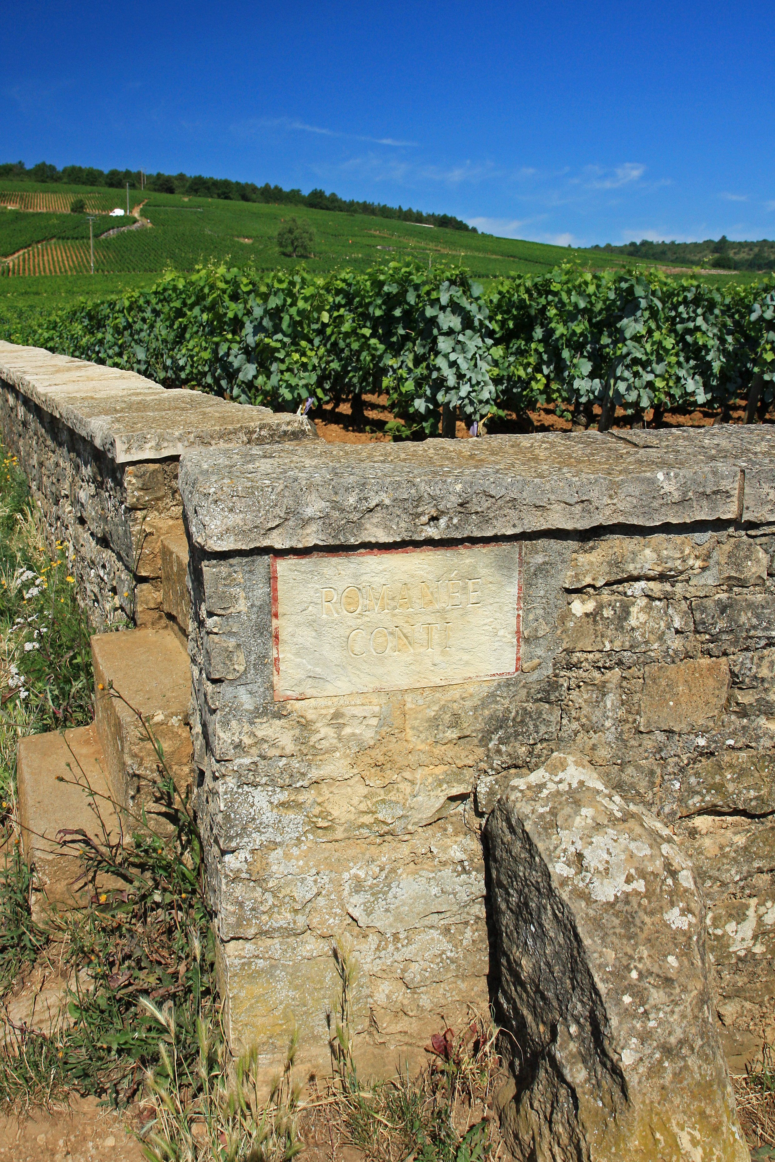 Exterior wall to the Grand Cru Burgundy vineyard in the cote de nuit wine region of France